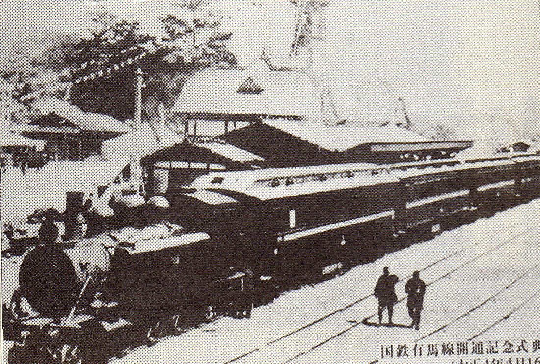 The first train of JNR Arima line waiting for the departure at Arima station, during the opening ceremony of the line.